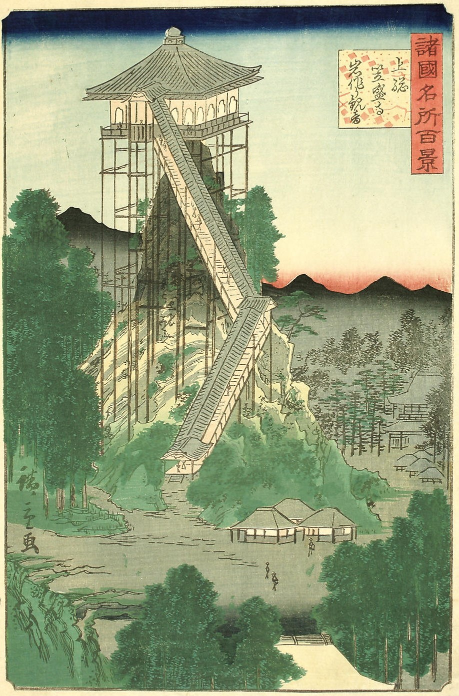 Print "Kasamori" by Hiroshige. From "100 Famous Places in variuos states"